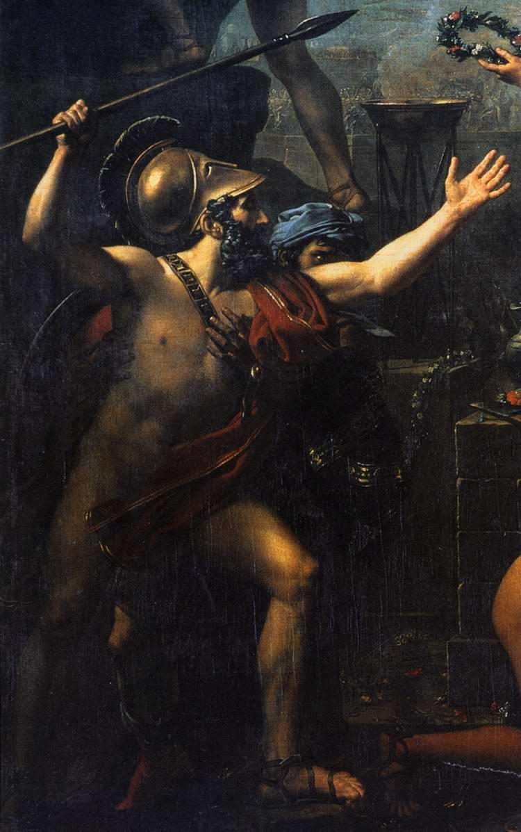 Leonidas at Thermopylae. Detail. Blind Sparta warrior led by his slave is returning to his king to fight.